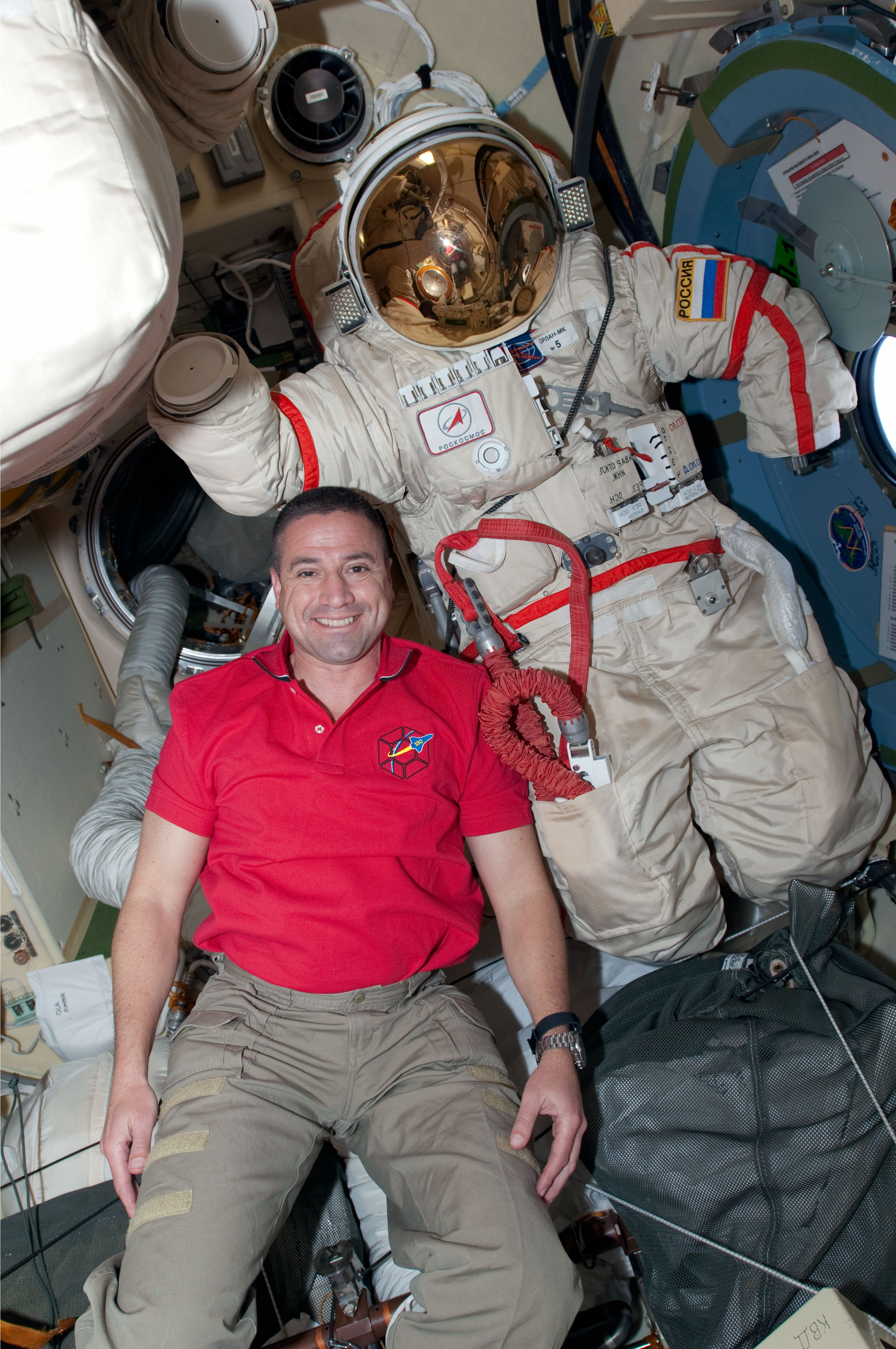 NASA astronaut George Zamka, STS-130 commander, poses for a photo with a Russian Orlan spacesuit in the Pirs Docking Compartment of the International Space Station while space shuttle Endeavour remains docked with the station.